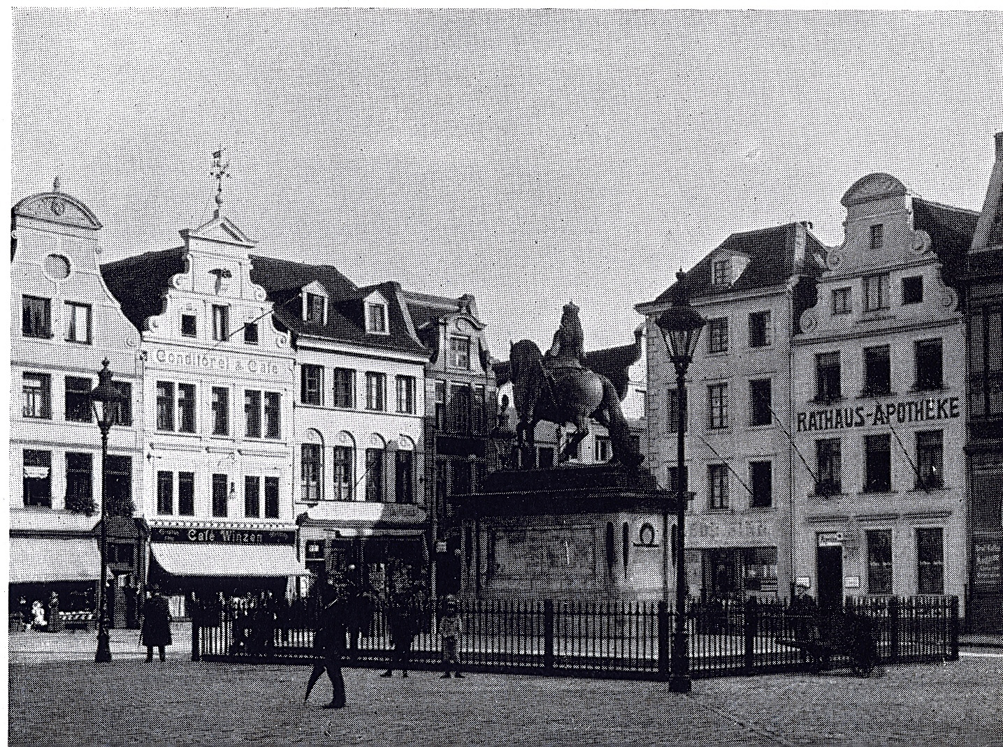 t